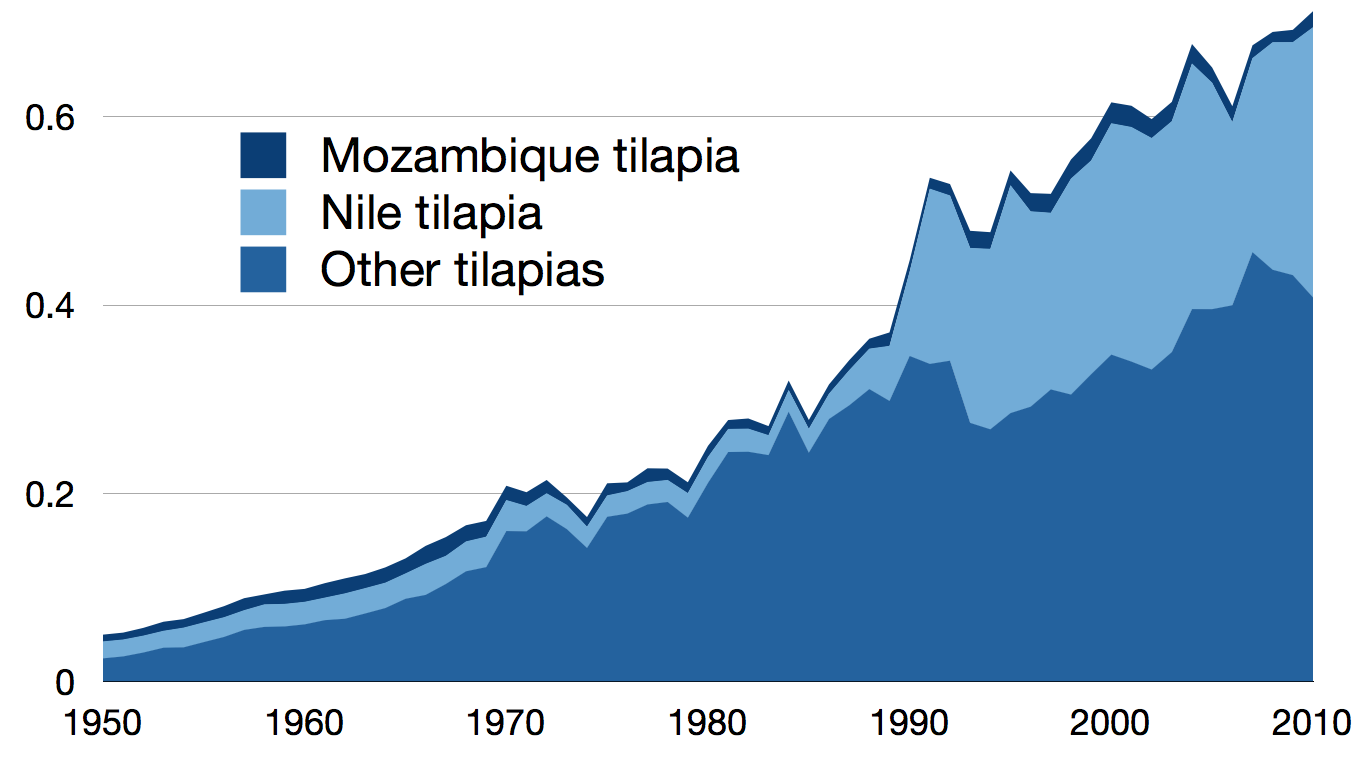 Global capture of wild tilapia in million tonnes, 1950–2010, as reported by the FAO. Based on data sourced from the FishStat database